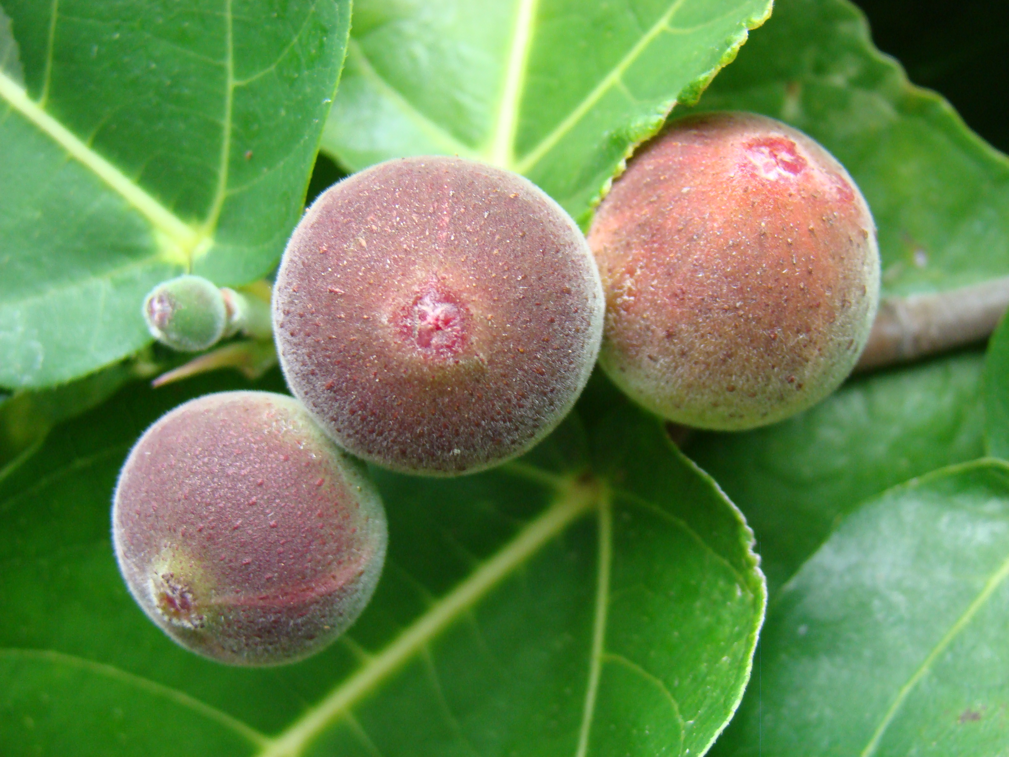 Figs on the variegated fig Ficus aspera 'Parcellii' (Moraceae) tree at the Flamingo Gardens, Davie, Florida.